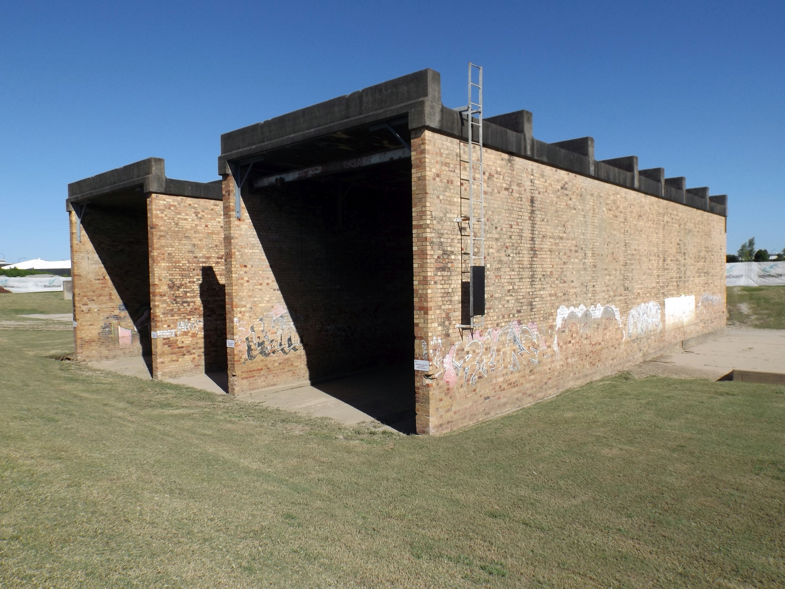 Photo of the enclosed stands at the Allison Engine Testing Stands site at Eagle Farm, Brisbane, Queensland, Australia.